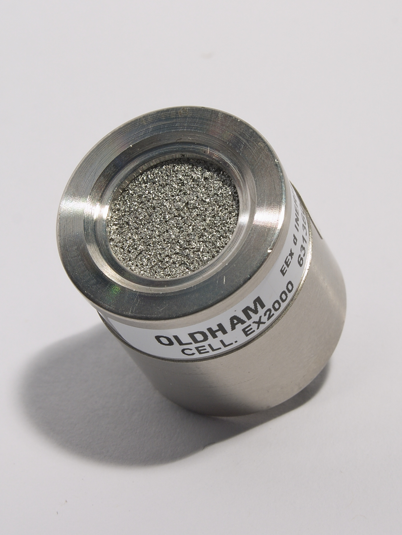 Methane sensor (or for other flammable gases) for use with portable gas detector devices.